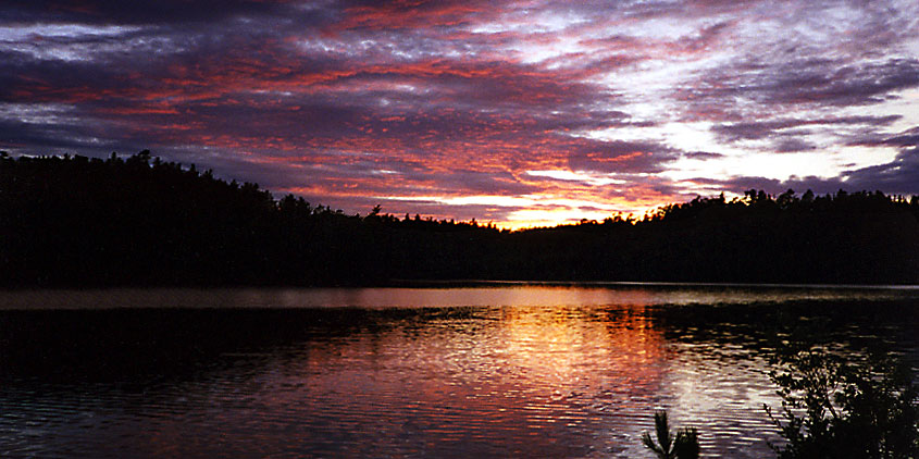 Rabbit Lake - Temagami, Ontario, Canada